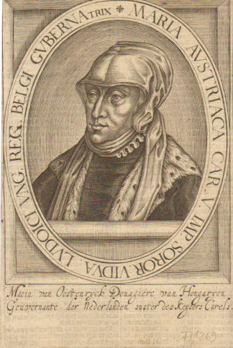 Halbporträt im ovalen Medaillon. Originaler Holzschnitt aus der Zeit um 1650. Bildgröße 12 x 15,5 cm. (Etwas knapp beschnitten)